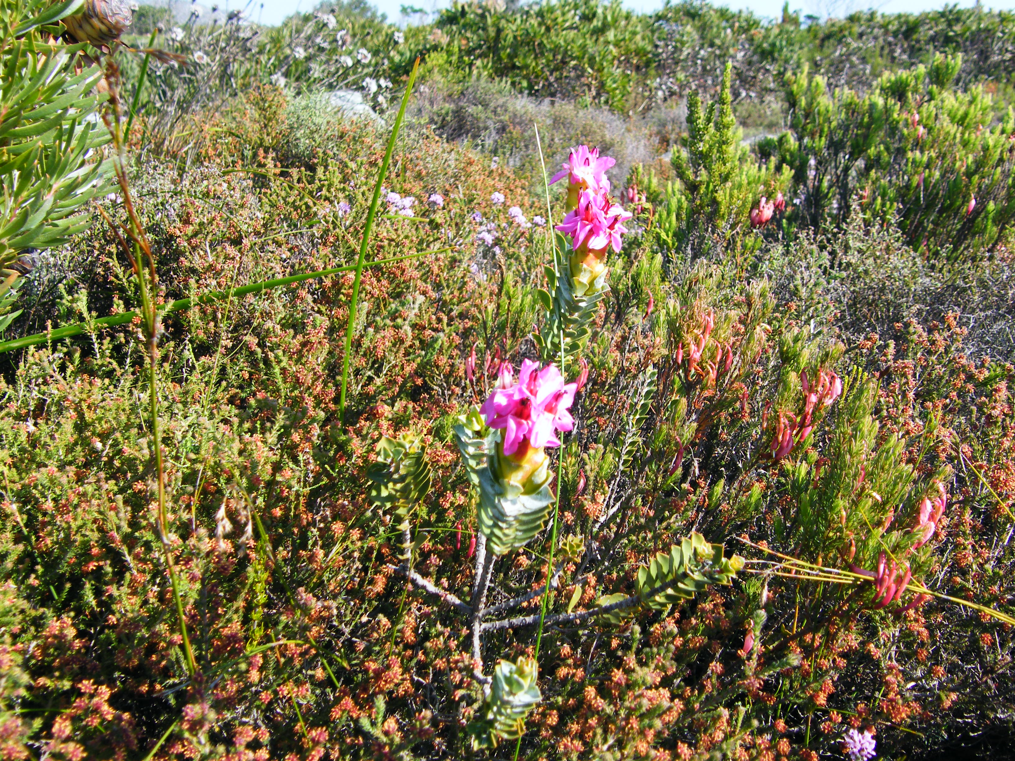 Cape fellwort